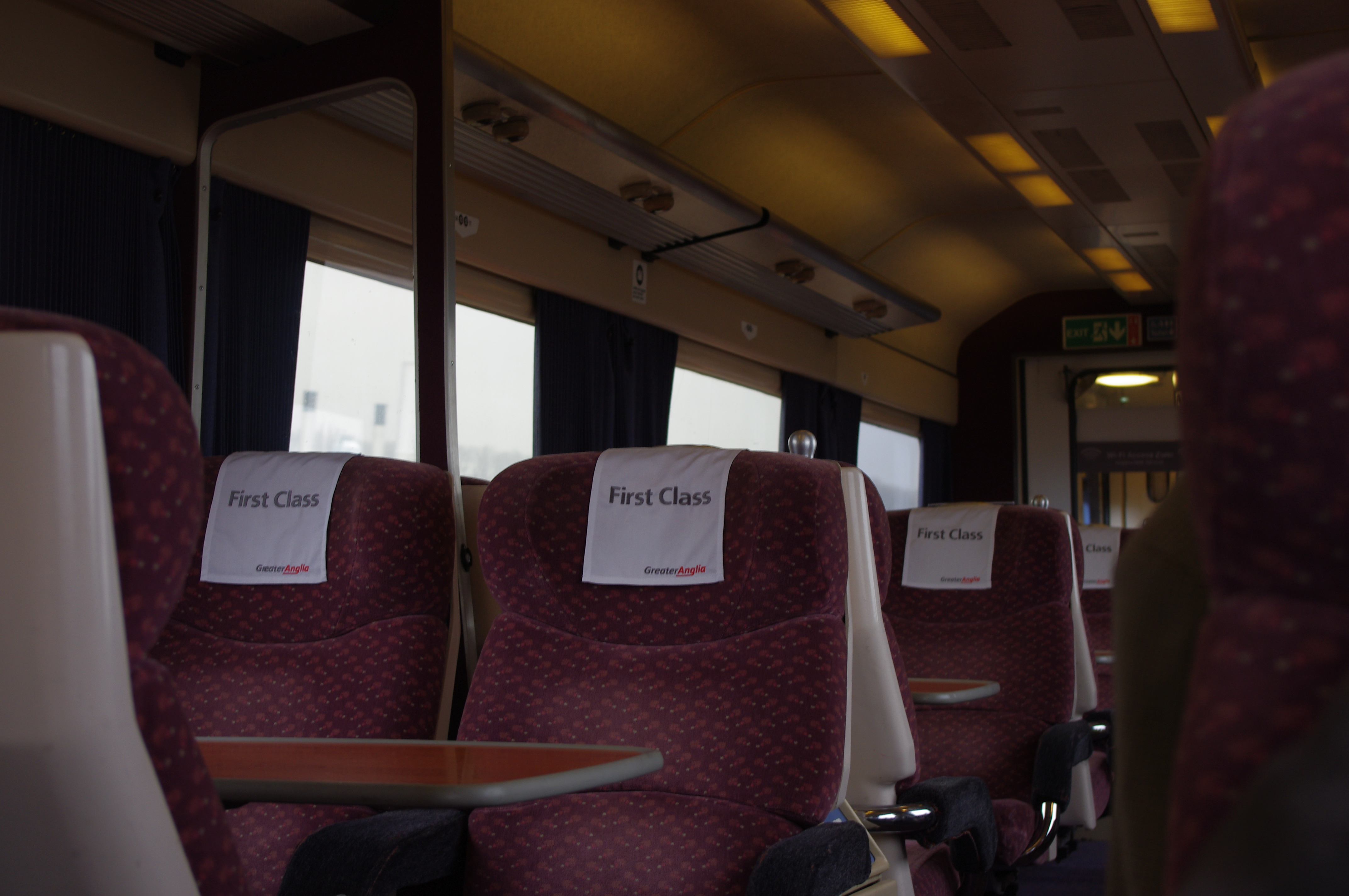 Note the new Greater Anglia branded antimacassar.